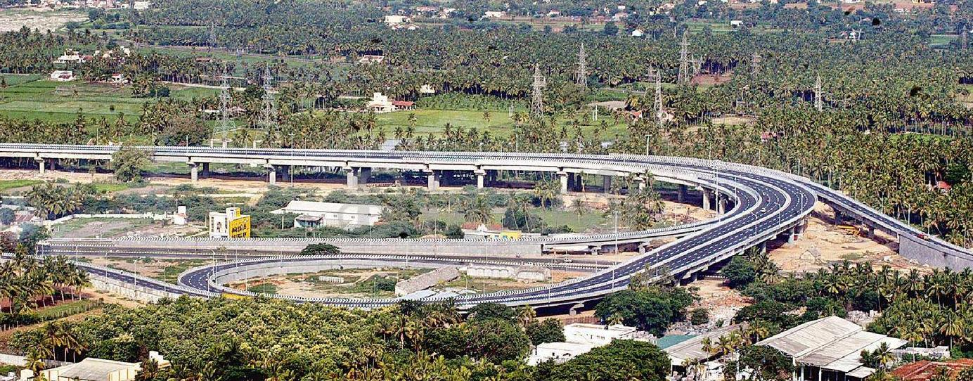 NH47(new NH544) and NH7(new NH44) trumpet grade separator on Salem bye-pass